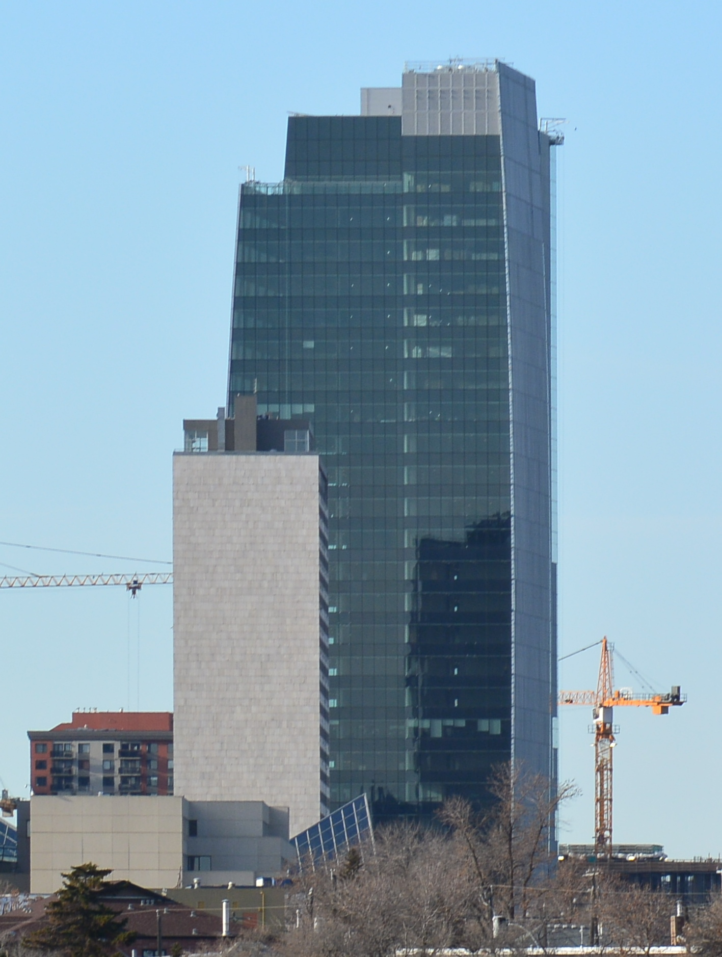 Edmonton Tower, Tower